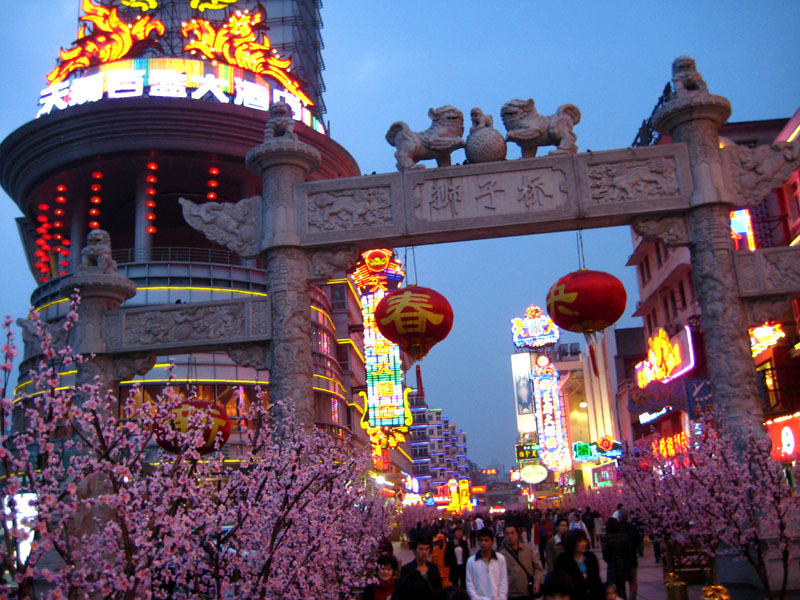 Shizi Qiao in Nanjing,China.